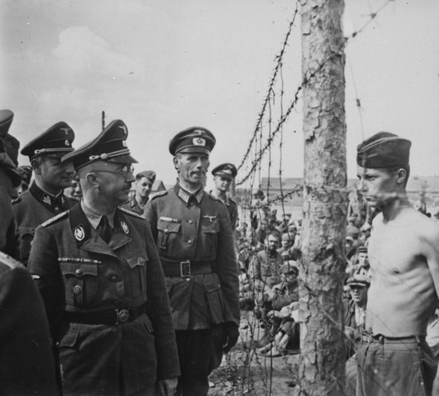 Heinrich Himmler - Soviet POWs. c. 1941[1]